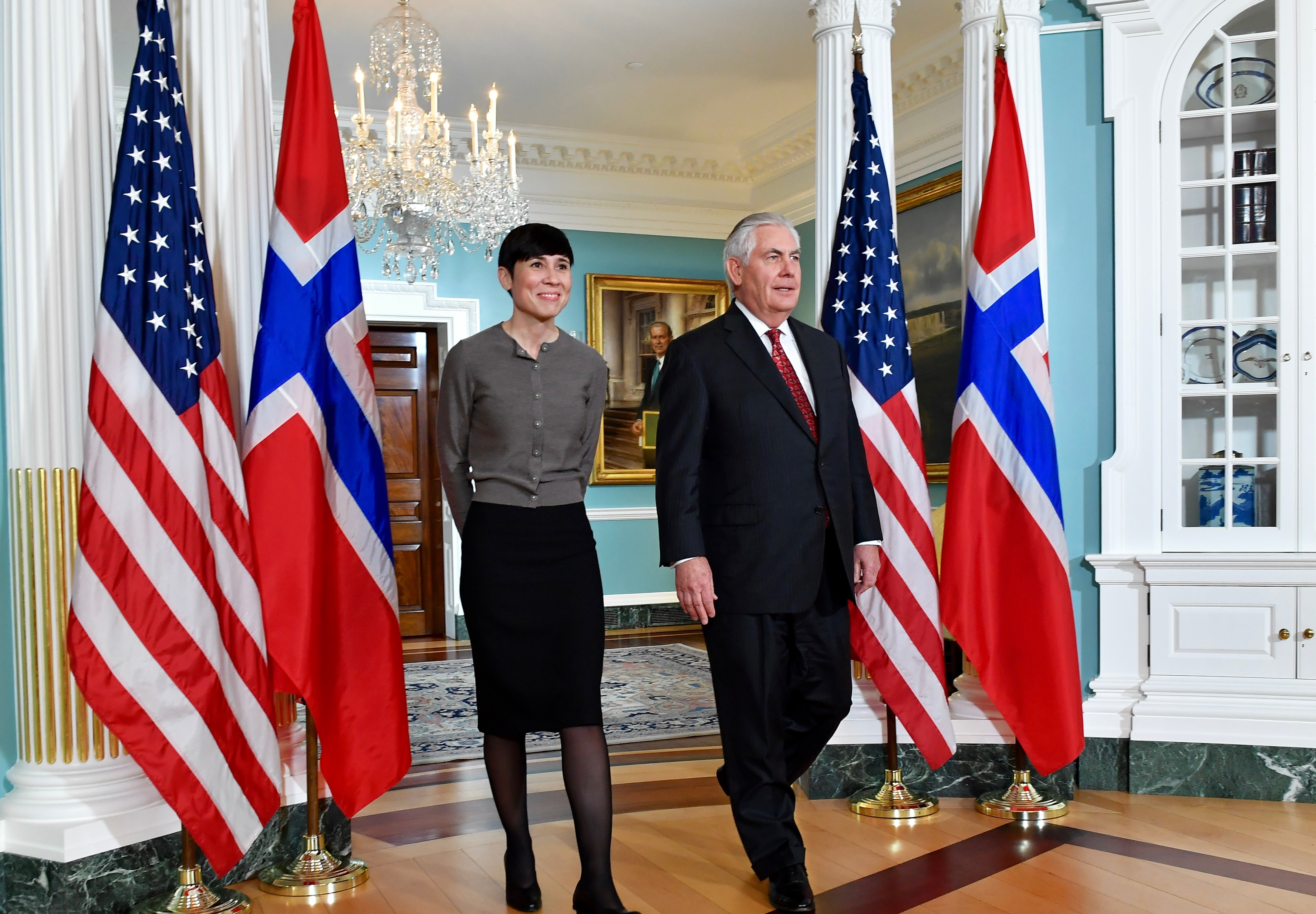 U.S. Secretary of State Rex Tillerson and Norwegian Foreign Minister Ine Marie Eriksen Søreide prepare to address reporters at the U.S. Department of State in Washington, D.C.